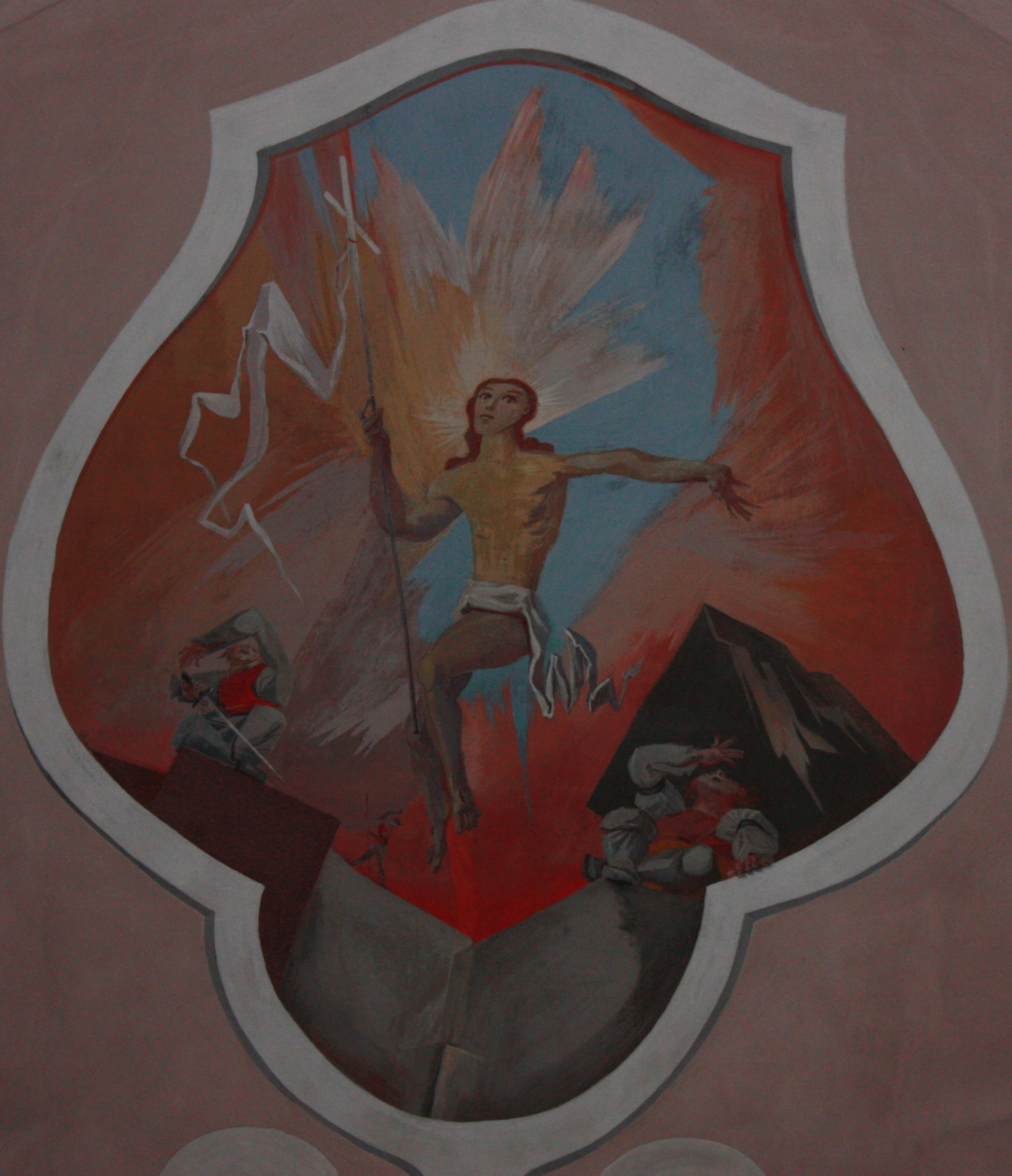 Parish church Holy cross - ceiling-painting - Rising Christ Locality: Ossiacher Zeile Community:Villach